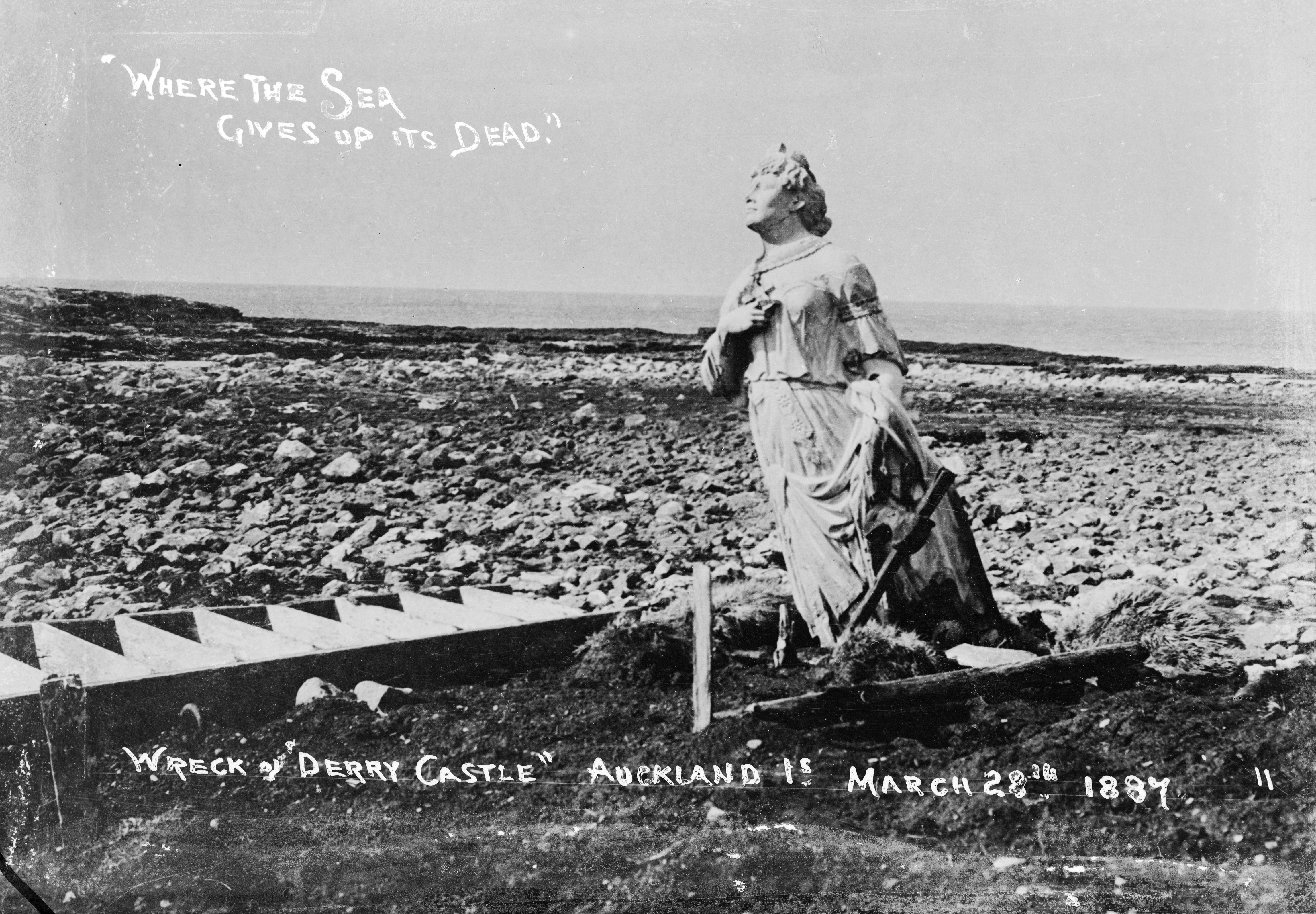 Photographer: David De Maus (1847-1925)[1] Wreck of ship "Derry Castle" on Enderby Island, Auckland Islands, 22 March 1887 Ship's figurehead marks grave Dry plate glass negative Reference No. 1/2-038208-G De Maus Collection, Alexander Turnbull Library, National Library of New Zealand Find out more about this image from the Alexander Turnbull Library.